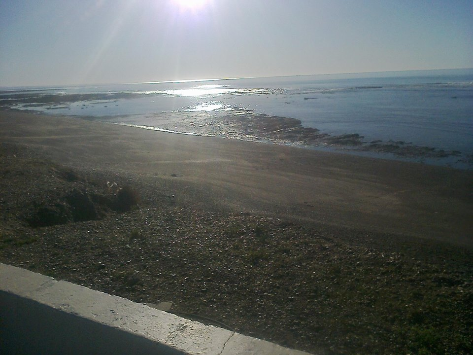 Costanera of Patagonia. Santa Cruz, Argentina